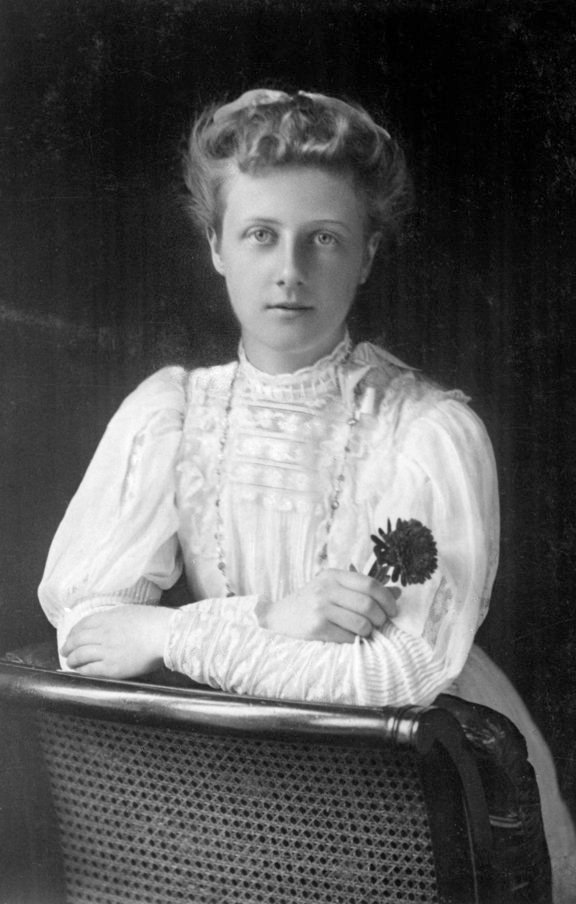 Her Highness Princess Alexandra of Fife, later Duchess of Fife, later Princess Arthur of Connaught.